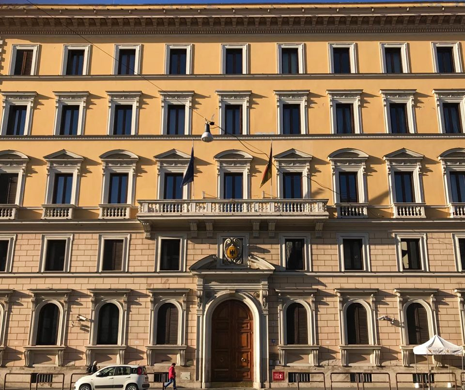 German Embassy in Rome